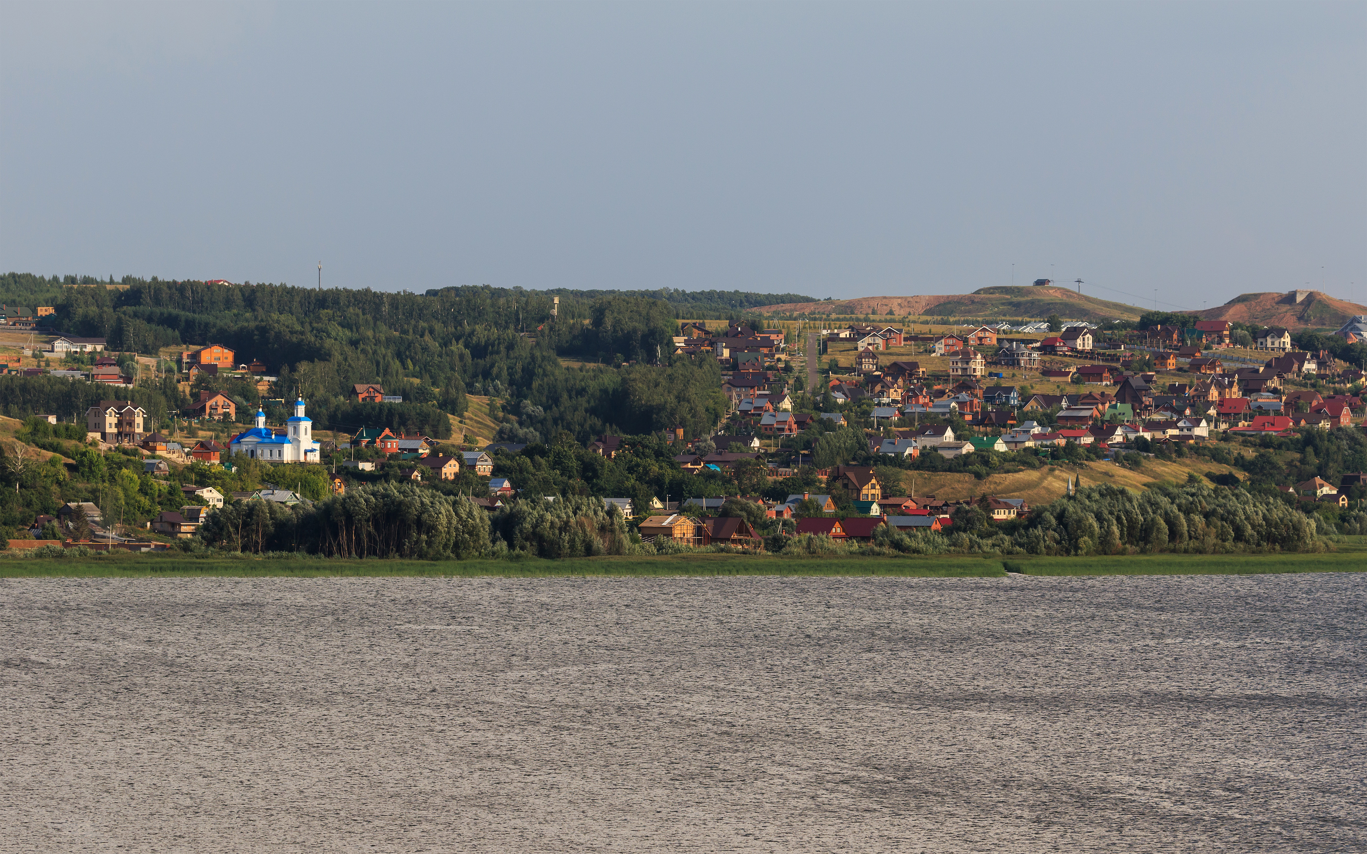 View of Vvedenskaya Sloboda from Sviyazhsk, Tatarstan, Russia.